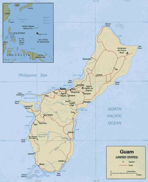 Guam relief map; 'Guam map; modified from PCL map collection